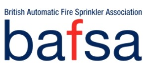 British Automatic Fire Sprinkler Association logo